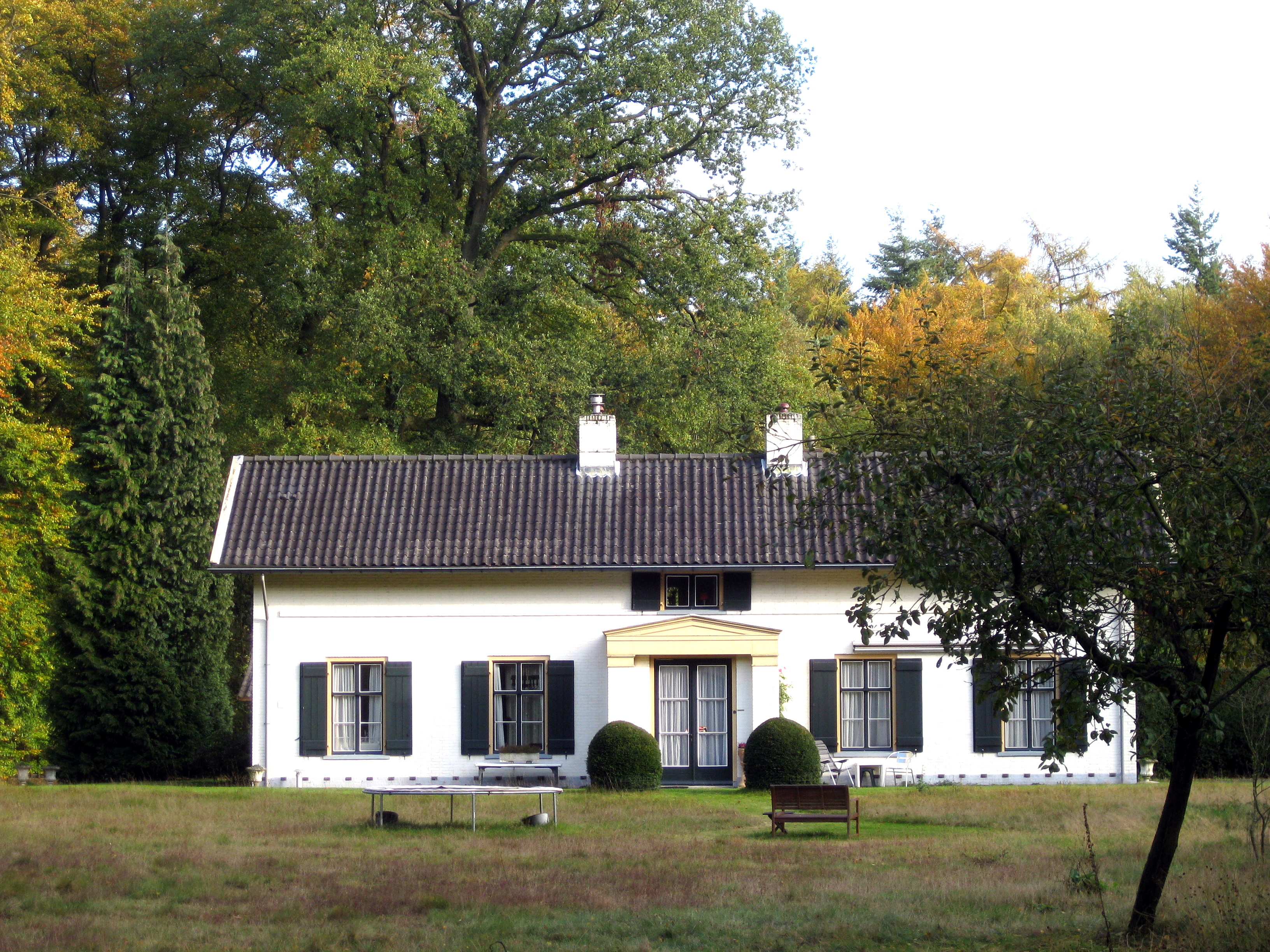 House De Hoogt, Henschoten estate, Woudenberg, the Netherlands